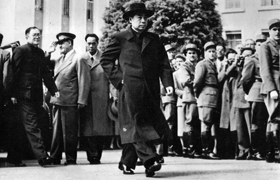 Chinese Premier Zhou Enlai at Geneva, April 26th 1954